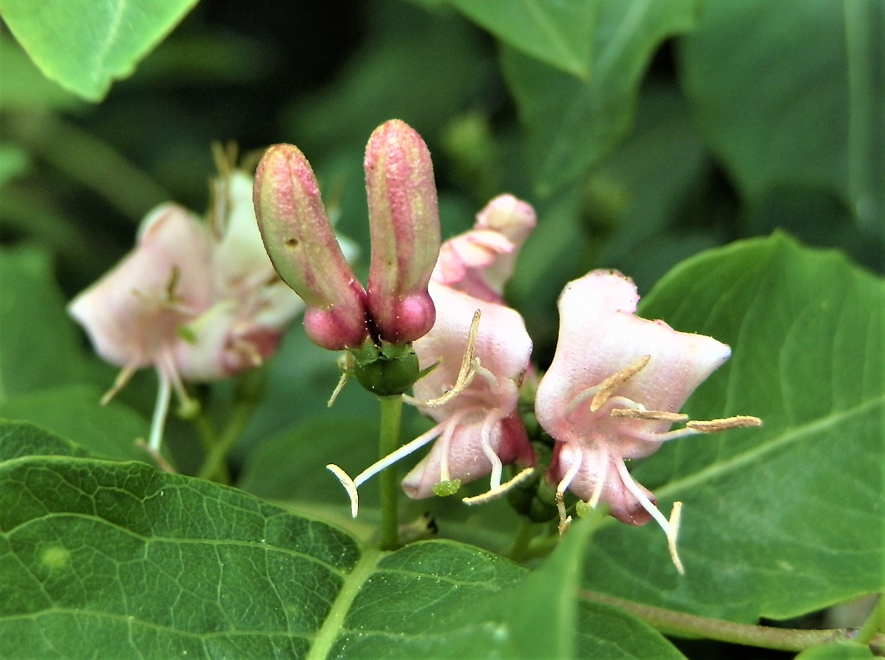 Lonícera tatarica flowers in Tsaghkadzor, Armenia․